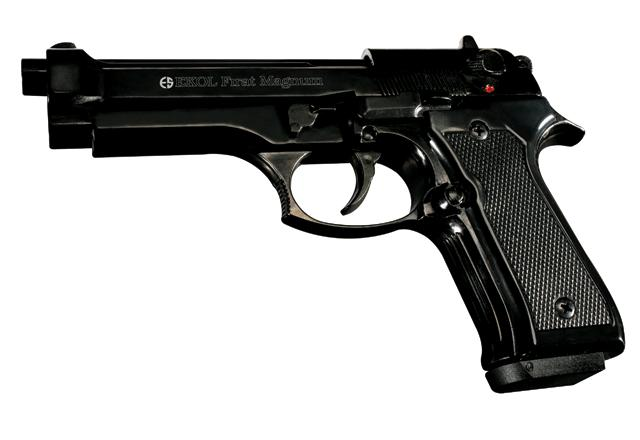 Firat Magnum BLACK